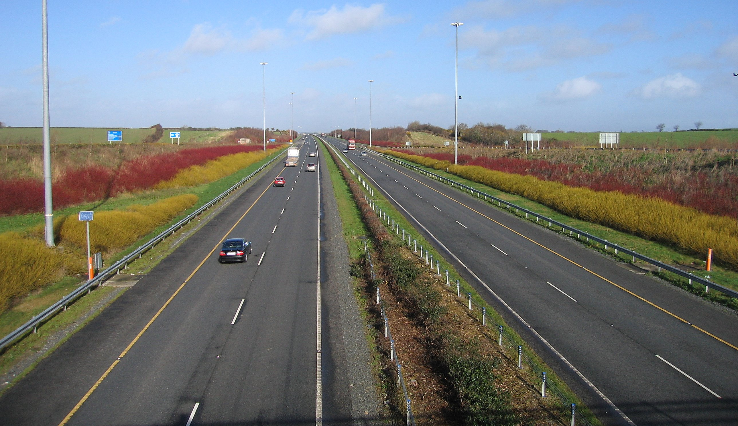 E01: The M1 motorway looking north in County Louth, Ireland